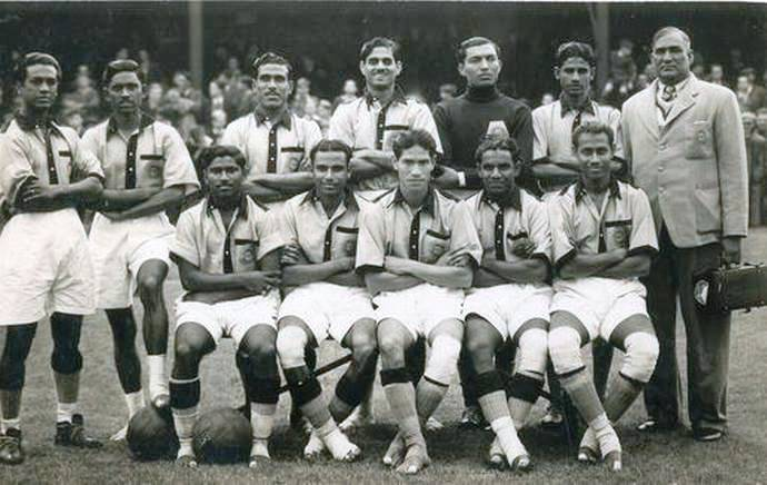 Indian National Men's team at 1948 London olympics. (From Left to right)Back row− Dhanraj(wearing boots),Mahabir Prasad, S.A.Baseer, S.Nandi, K.V.Varadaraj, Varghese Papen(wearing boots), Coach Balaidas Chatterjee. Front Row− Sahu Mewalal, Ahmed Khan, Captain Talimeren Ao, S.Raman,Sailen Manna